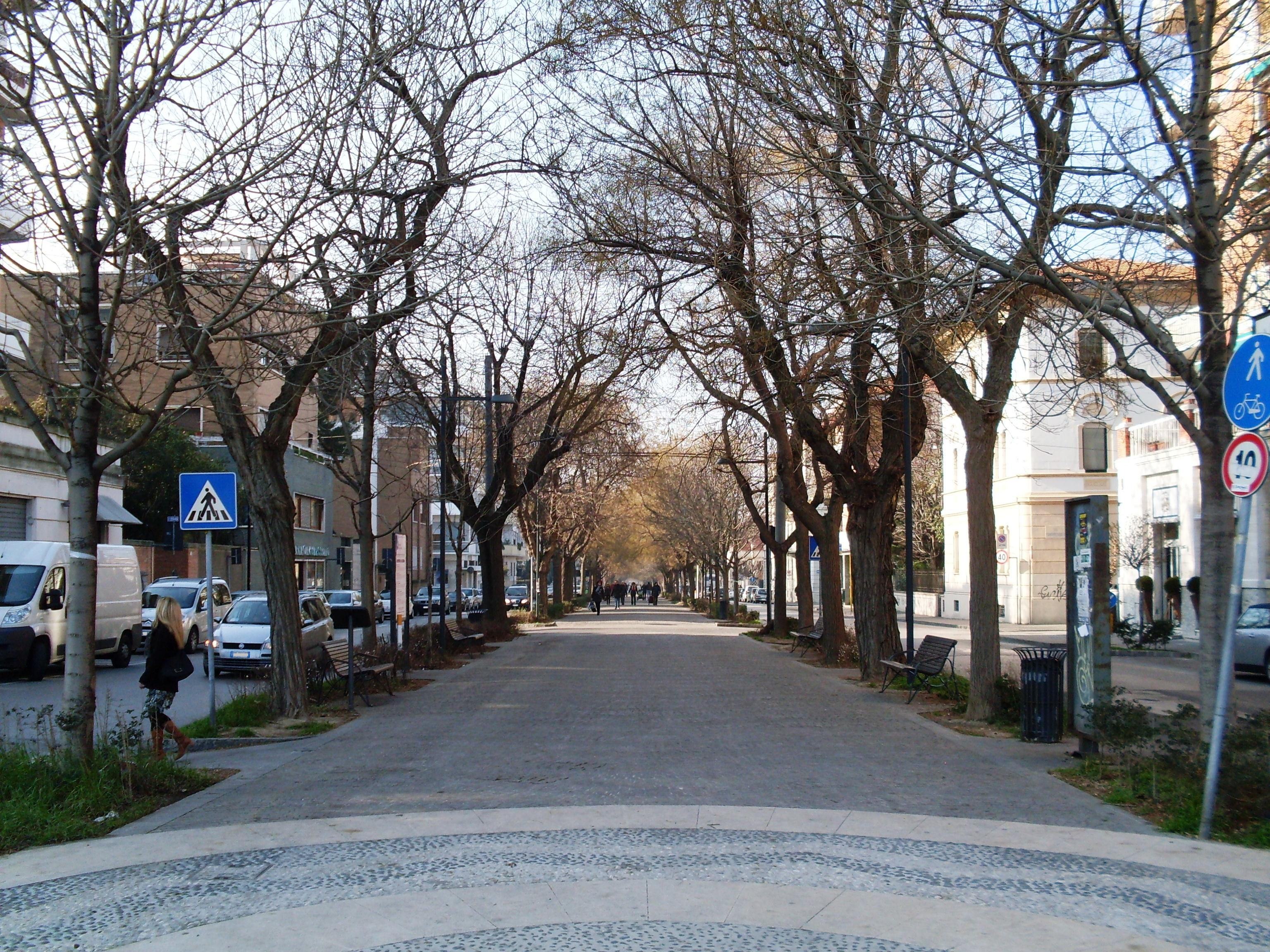 Italy Ancona Passetto - Victoria Avenue